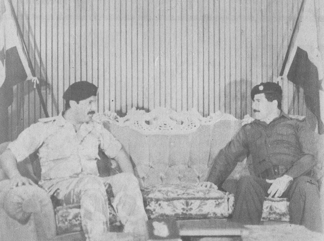 Mr. Adnan Khairallah, Iraqi Minister of Defense (right) with his guest Sheikh Khalifa Bin Ahmad Al-Khalifa, Bahrain´s Defense Minister (left)